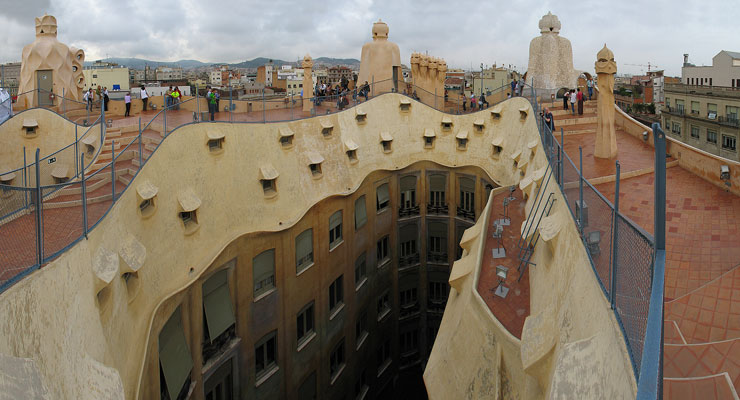 Casa Milà panoramic view, in Barcelona, Catalonia.